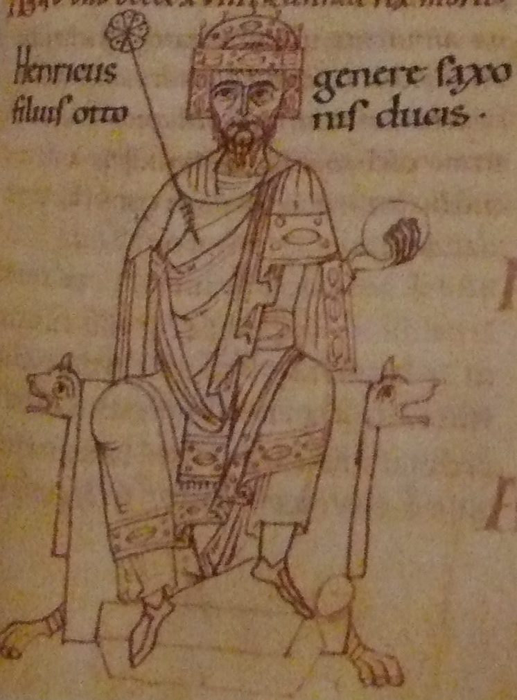 Henry I the Fowler